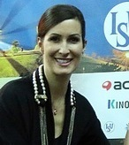 Tessa Virtue and Scott Moir at the 2016 Grand Prix Final